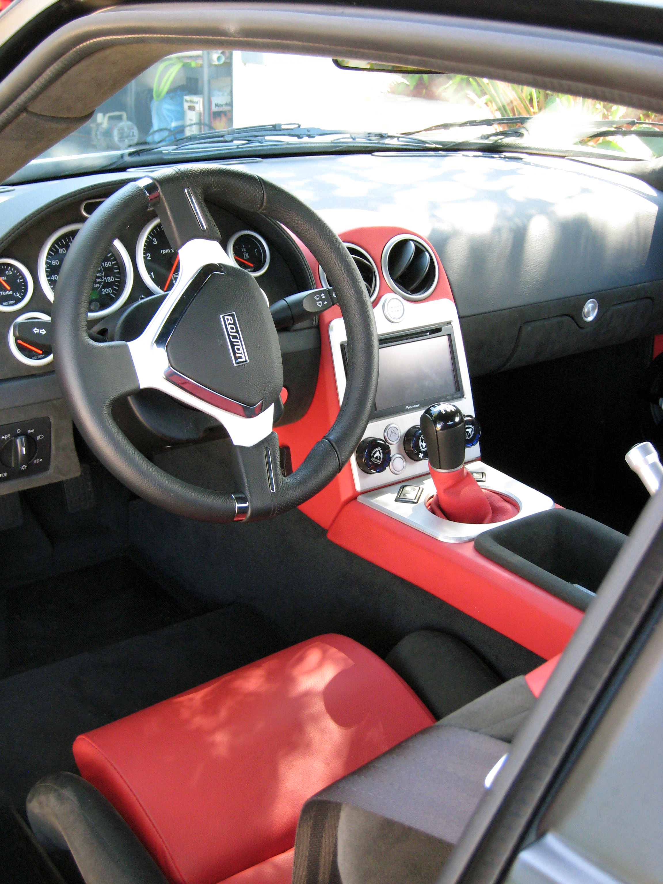 Interior shot of Rossion Q1 sports car (pre-production model).